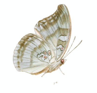 Dophla evelina